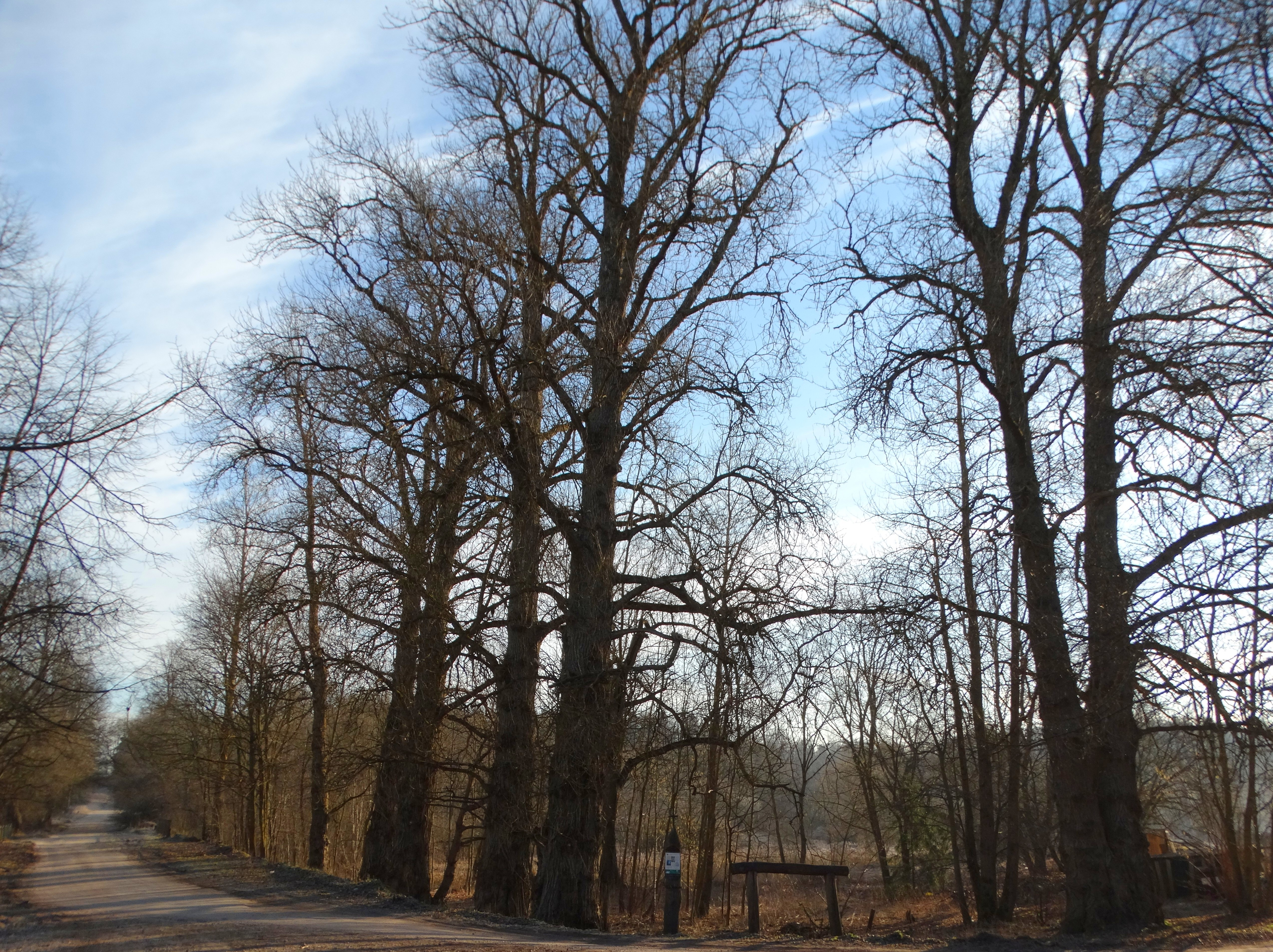 Poplar trees, Bubiai, Šiauliai district, Lithuania